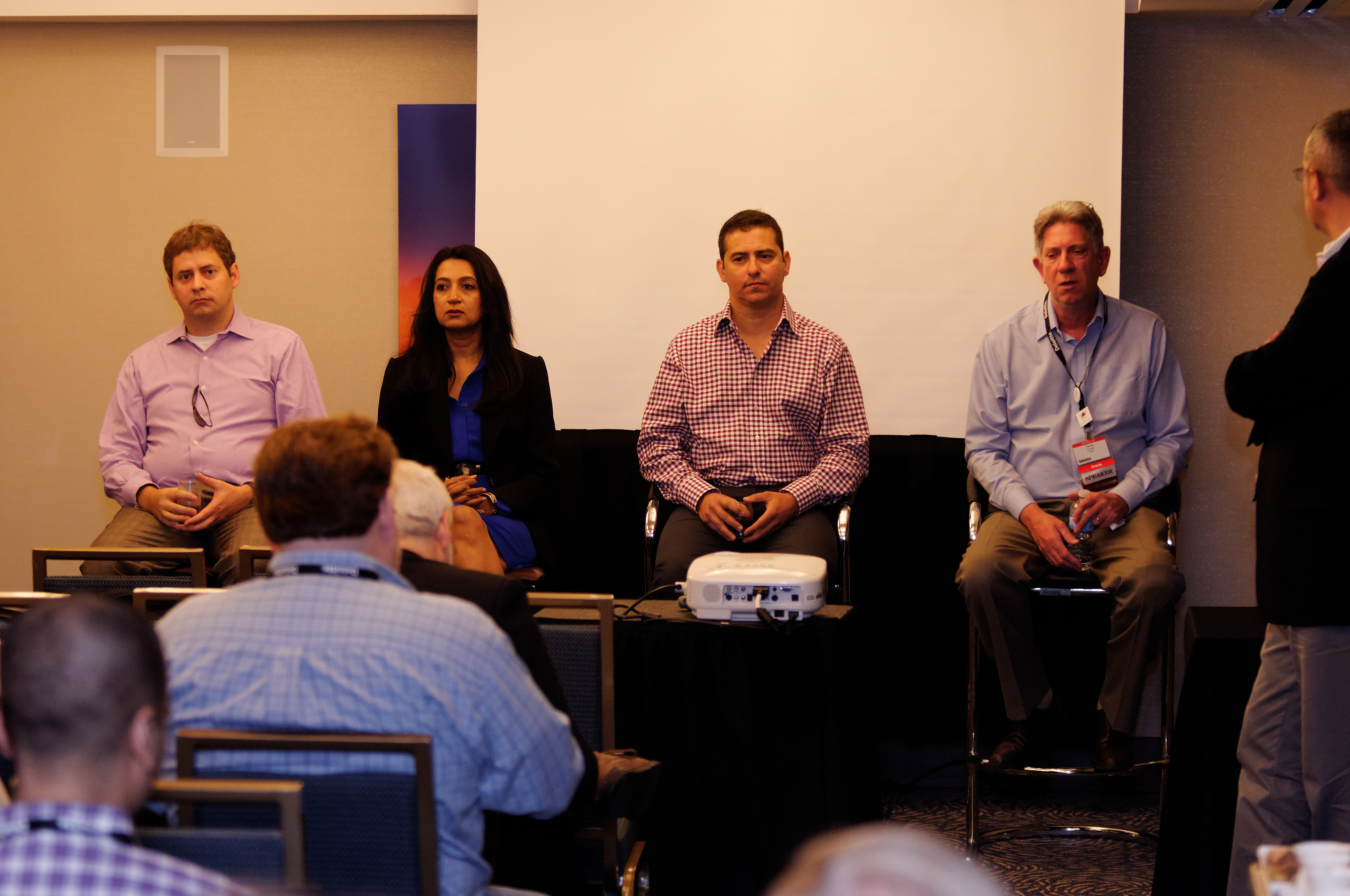 A press panel briefing at the JavaOne conference held in conjunction with Oracle OpenWorld in San Francisco in 2012. Participants are: Cameron Purdy (Java EE) Nandini Ramani (JavaFX/Embedded Java/Java ME) Georges Saab (Java SE) Patrick Curran (JCP) Petter Utzschneider